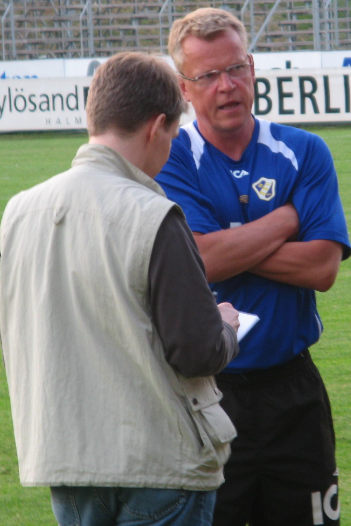 Janne Andersson talking to a reporter after friendly against Reading F.C. 2008